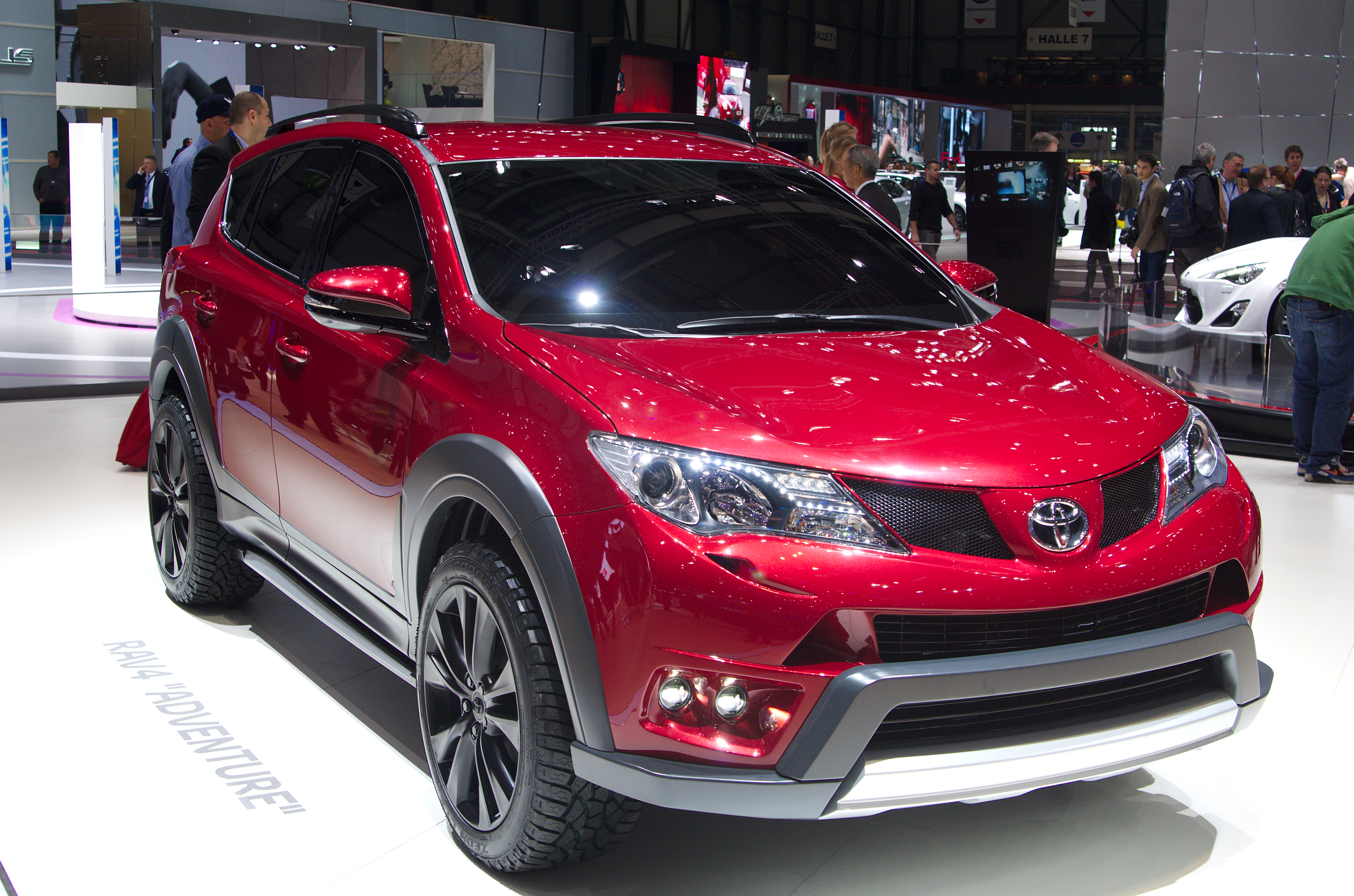 Geneva MotorShow 2013 - Toyota Rav4 Adventure